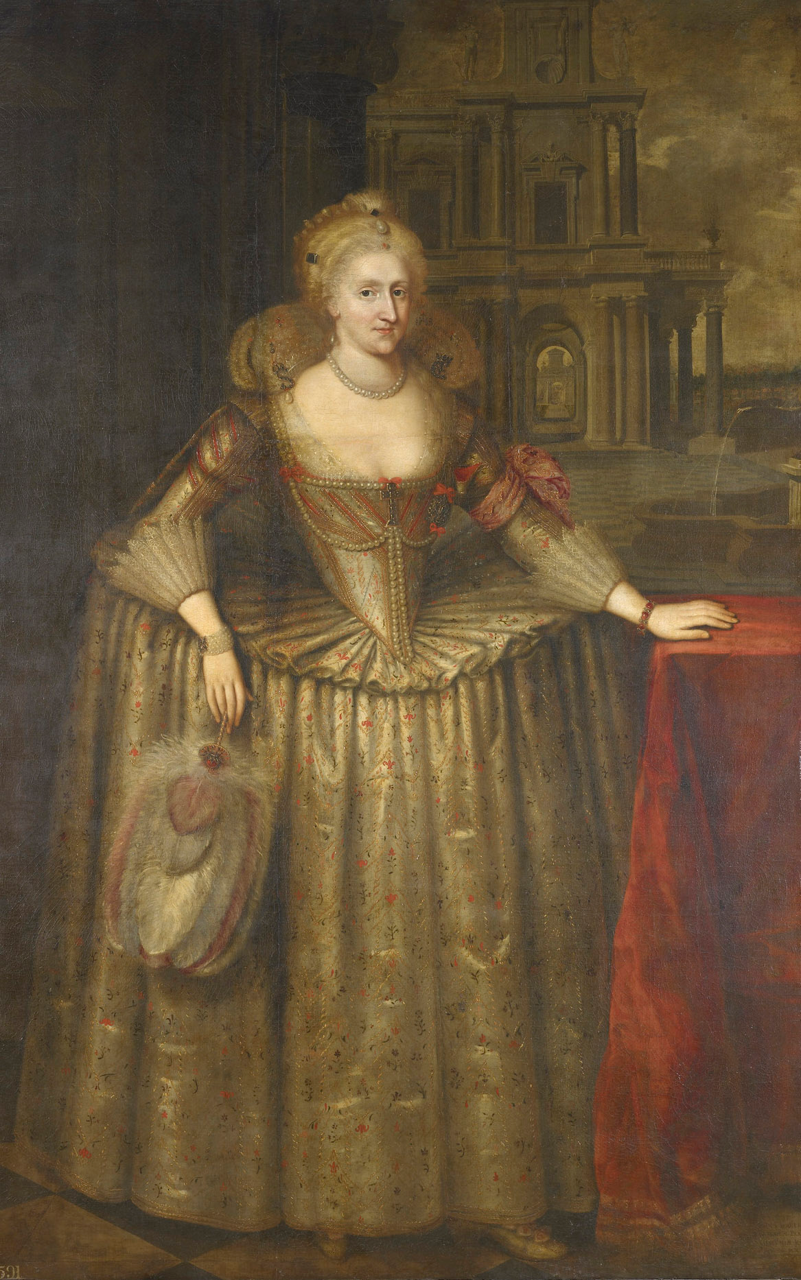 Anne of Denmark by Paul van Somer